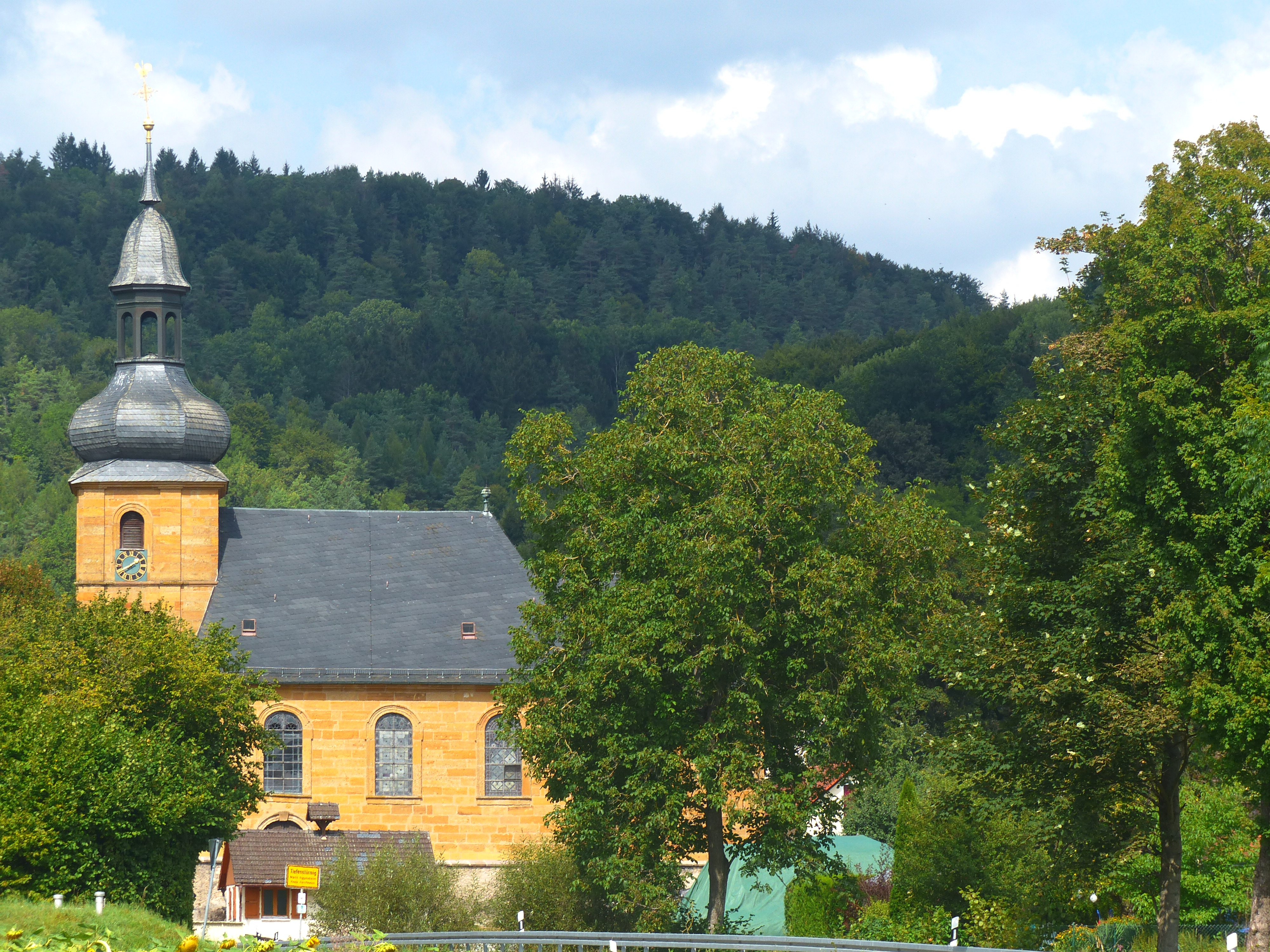 The the church of Tiefenstürmig, a village and district of the municipality of Eggolsheim.